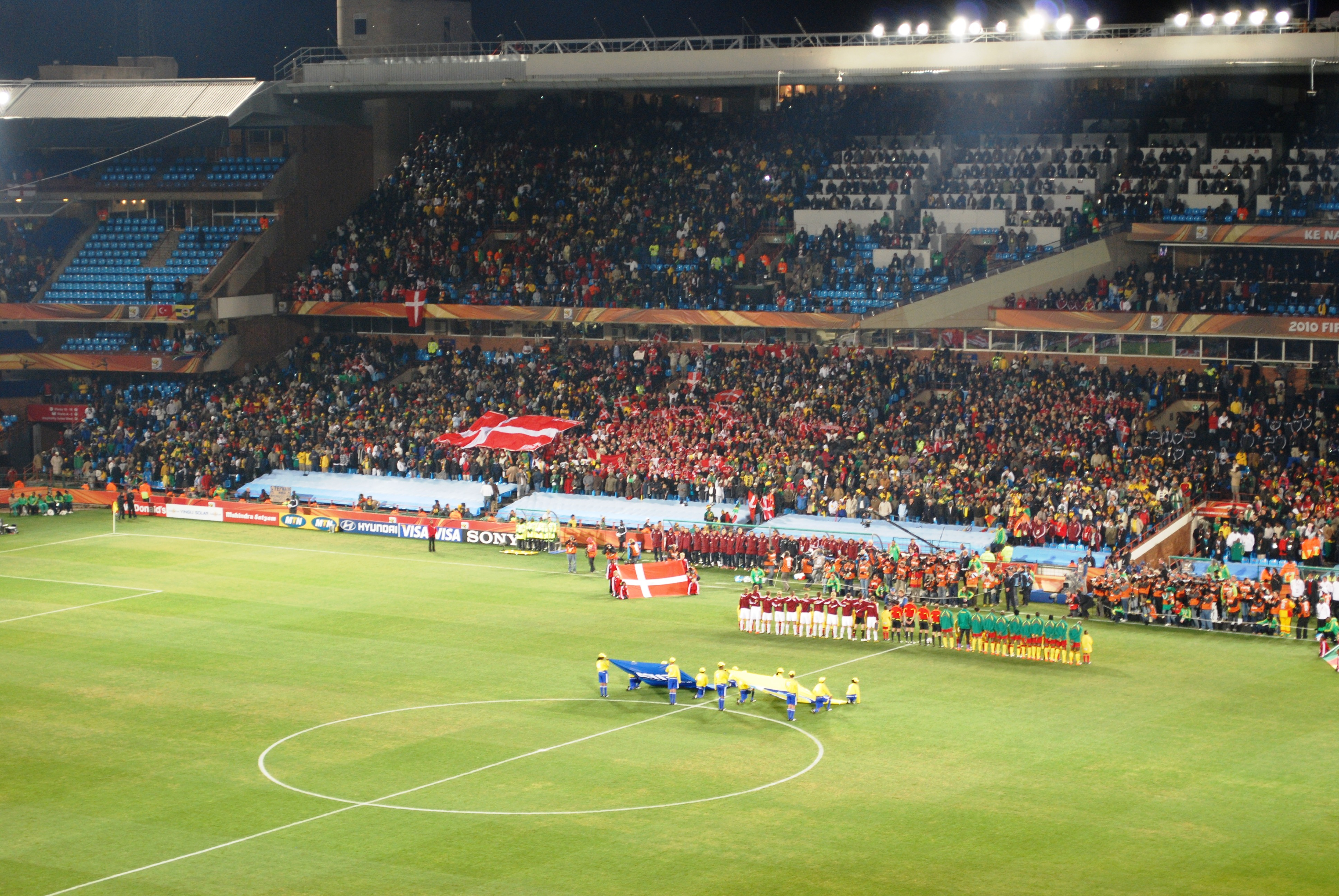 The Danish and Cameroonian soccer players stand for their national anthems before the kickoff of their World Cup match at Loftus Versfeld Stadium in Pretoria, South Africa, on June 19, 2010. [State Department photo/ Public Domain]